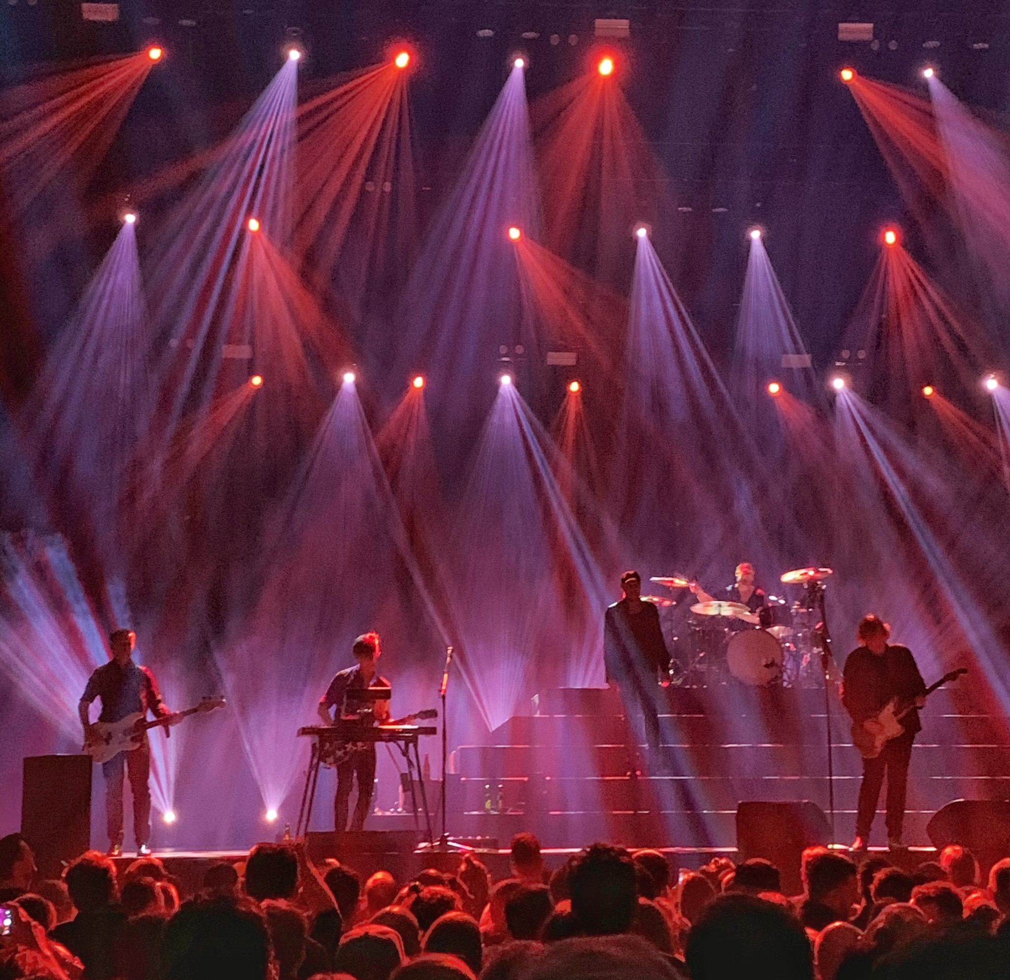 Magtens Korridorer performs at KB Hallen 28 December 2019